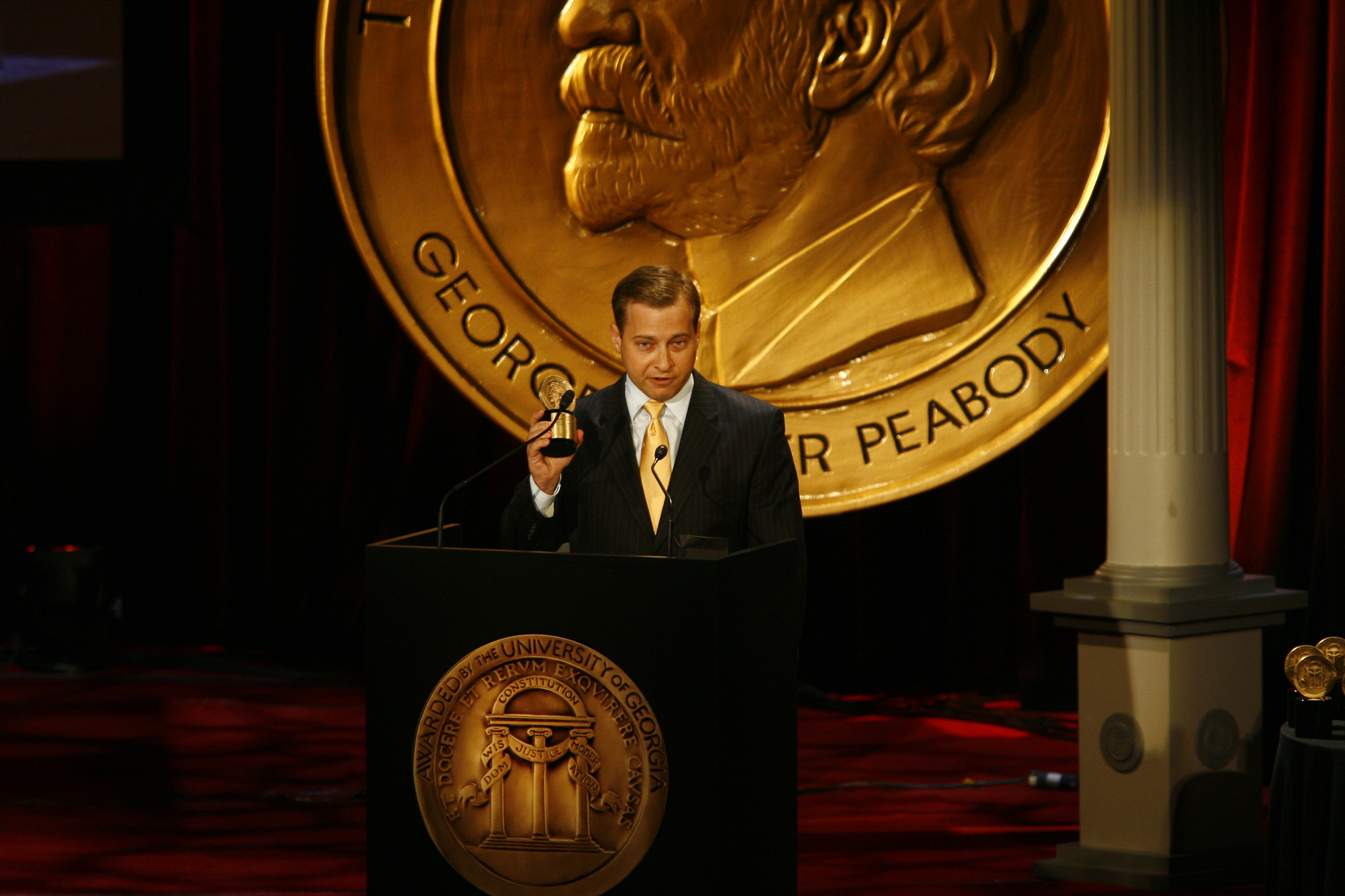 Mark Greenblatt 69th Annual Peabody Awards Luncheon Waldorf=Astoria Hotel New York, NY USA May 17, 2010